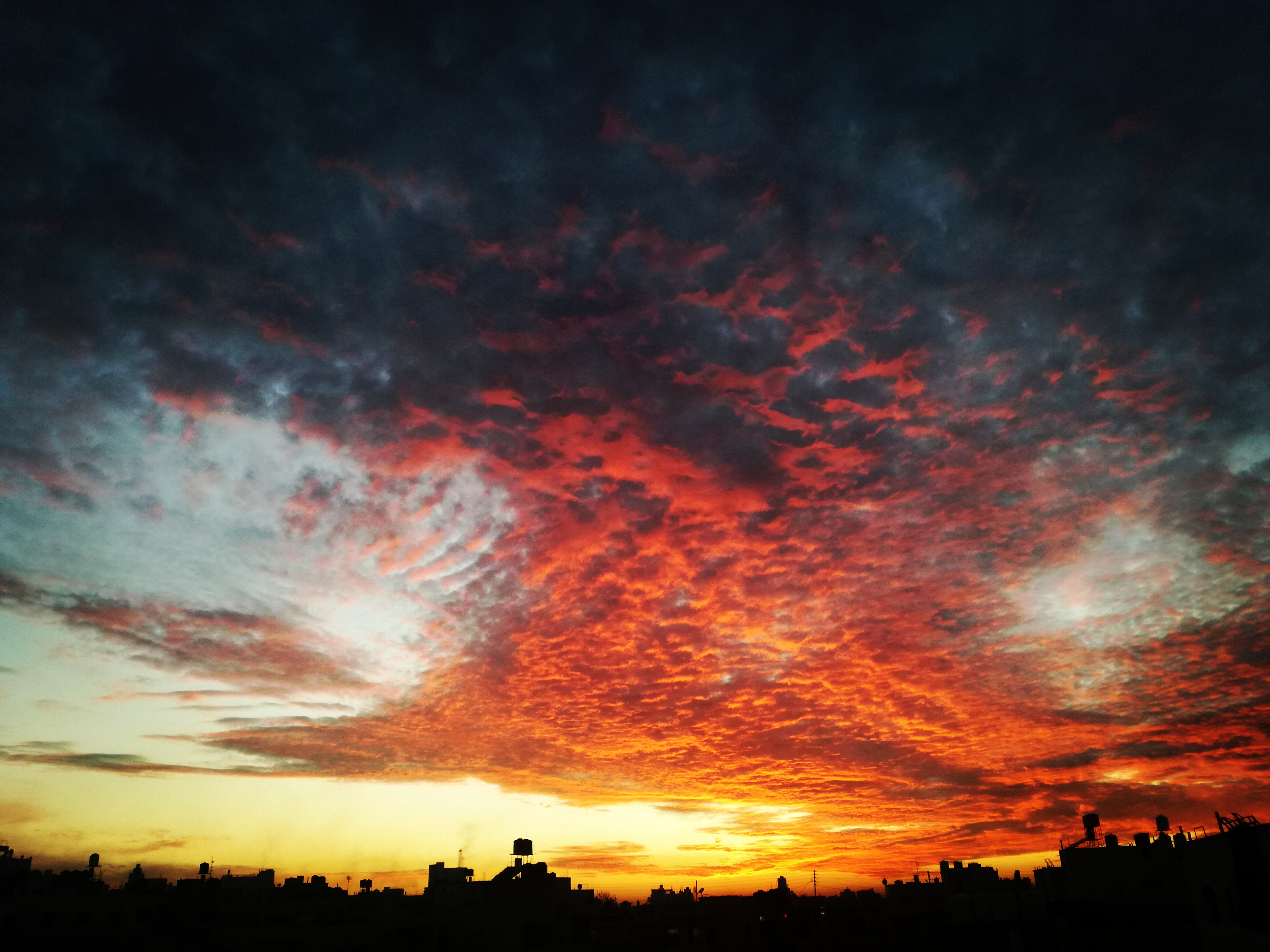 Clouds at sunset in Hebron